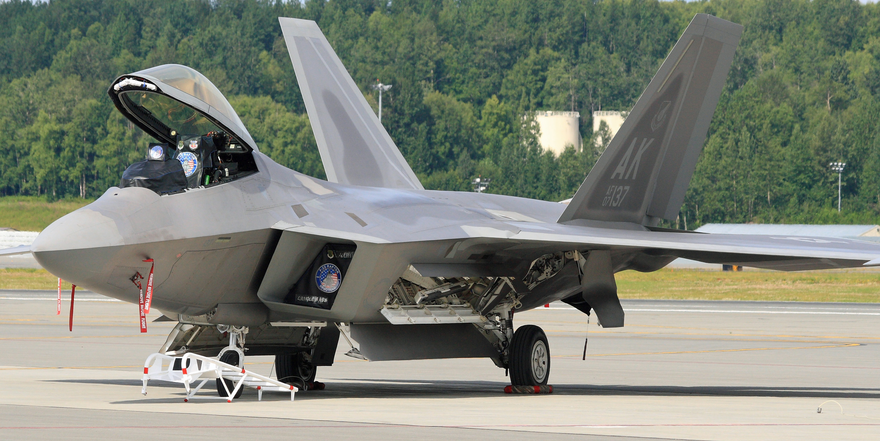 Arctic Thunder is the name of the bi-annual air show at Elmendorf Air Force Base in Anchorage, Alaska. The Air Show is pretty cool with a lot of static and flying exhibitions. Unfortunately this year's show was marred by the crash of a C-17 two days before the show started, killing the 4 person crew. The fate of the air show was in doubt but it with on as a tribute to the C-17 air crew. I was able to attend the dry run held on Friday before the actual weekend air show which is nice since it really cuts down the size of the crowd. Weather-wise the show started off fine, but as with every Friday in this god-awful summer the clouds rolled in shortly after noon and it started to drizzle. It also turned the sky from a nice blue to a heavy, industrial, blah gray. Oh, here's hoping for better luck next time!